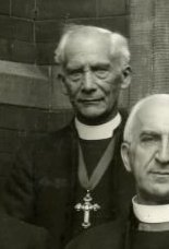 George Thorneloe, then Anglican Bishop of Algoma and Metropolitan of Ontario